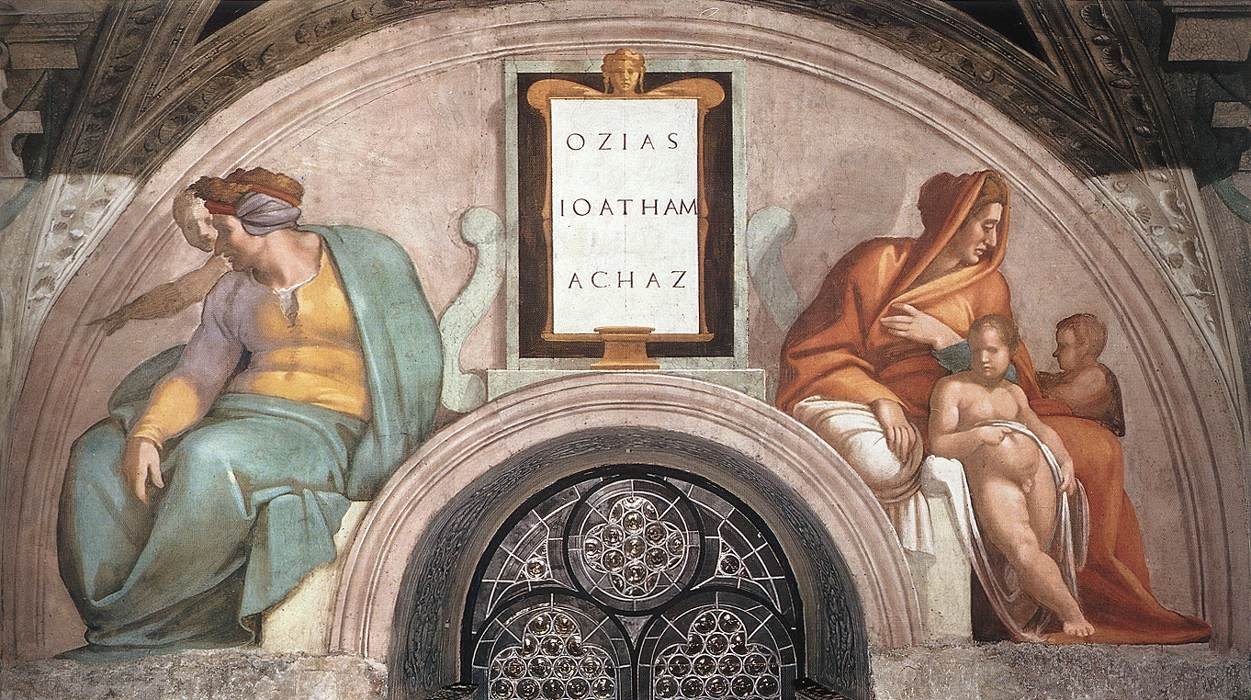 fresco painted by Michelangelo at the Sistine Chapel in the Vatican between 1508 to 1512